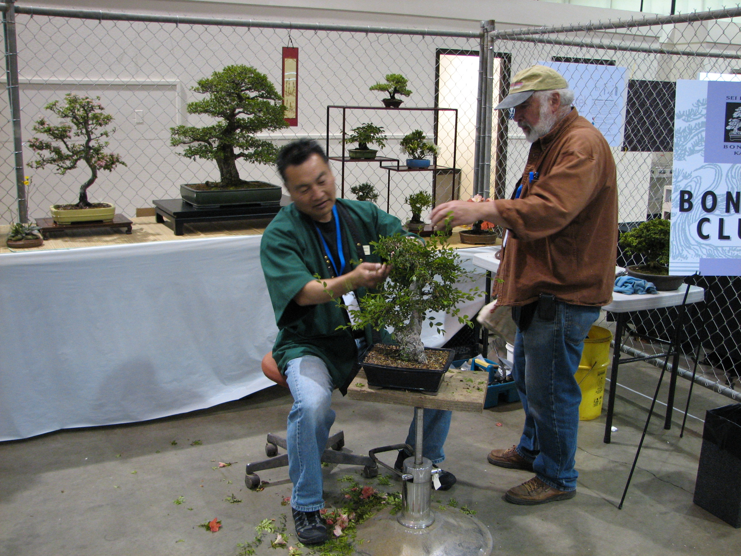 Maker Faire Bonsai booth